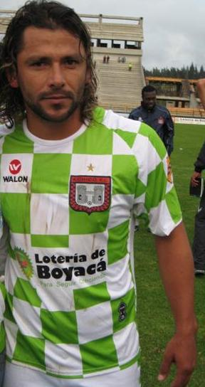 General Bedoya